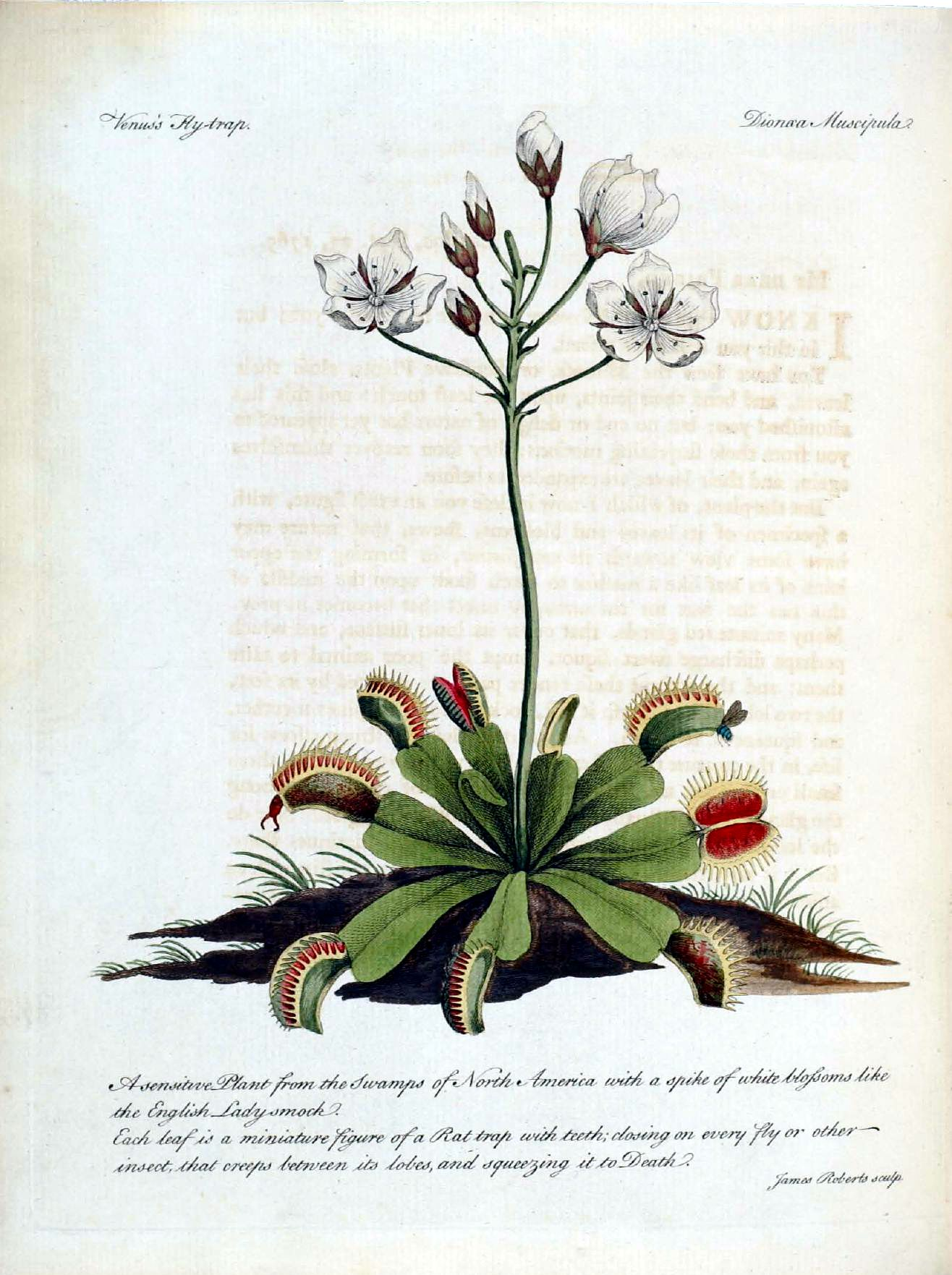 "He also appended, with its own title page, a description of Venus flytrap that was sent "in a letter to Sir Charles Linnaeus." His letter to Linnaeus, dated 23 September 1769, was sent with an illustration and a specimen, and began: "My dear Friend, I know that every discovery in nature is a treat to you; but in this you will have a feast." A lovely hand-colored engraving of the plant serves as frontispiece to the published letter." Plate from John Ellis’ "A Botanical Description of the Dionoea muscipula" in the same volume. HI Library call no. MC1 E47D.